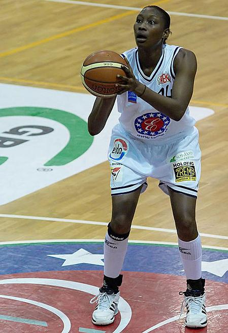 Denaimou N'Garsanet, match Gorzów-Leszno